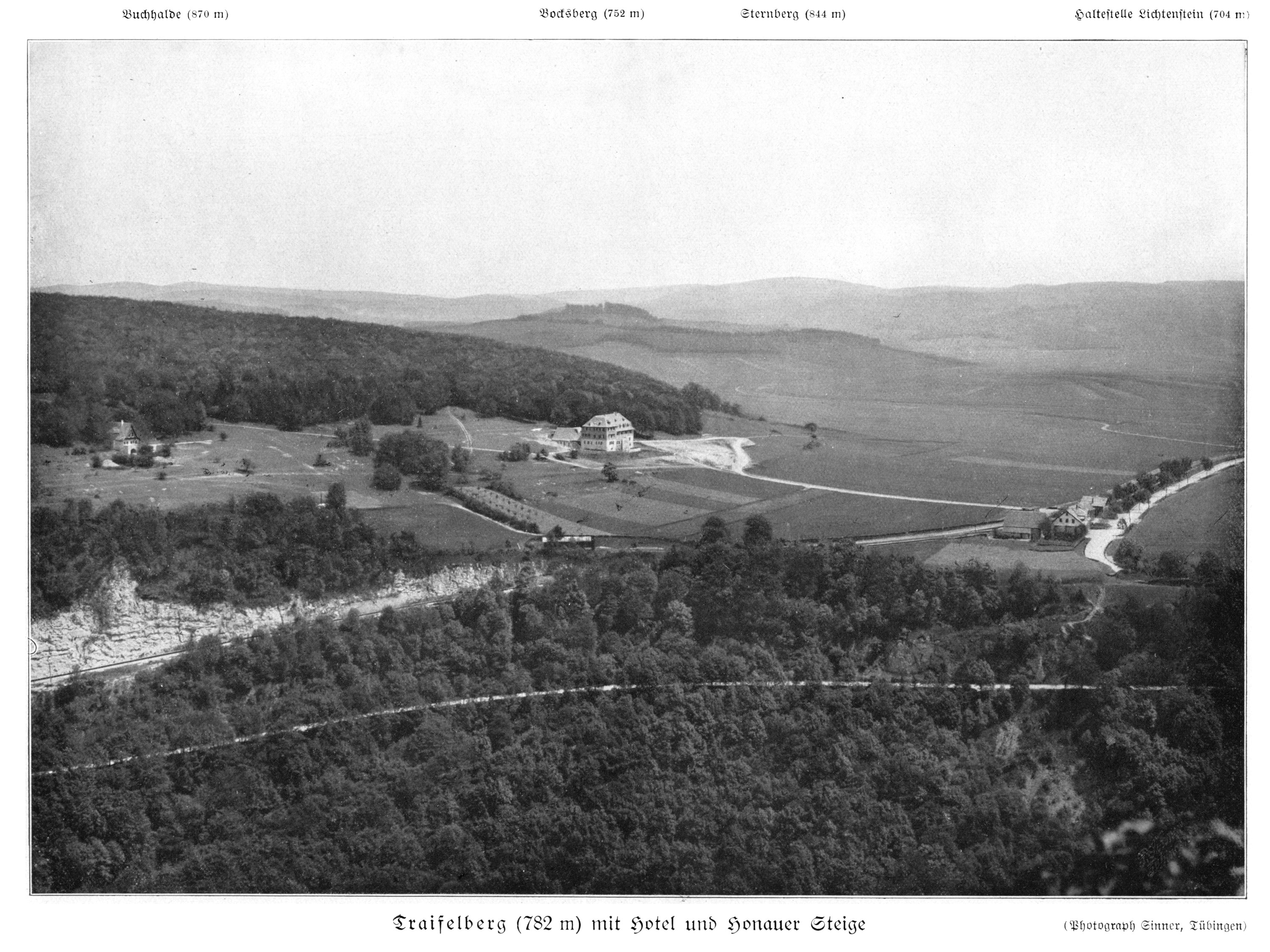 Traifelberg 782 m with Traifelberg Hotel and Honau Steige (and track of the Reutlingen–Schelklingen railway rack railway.